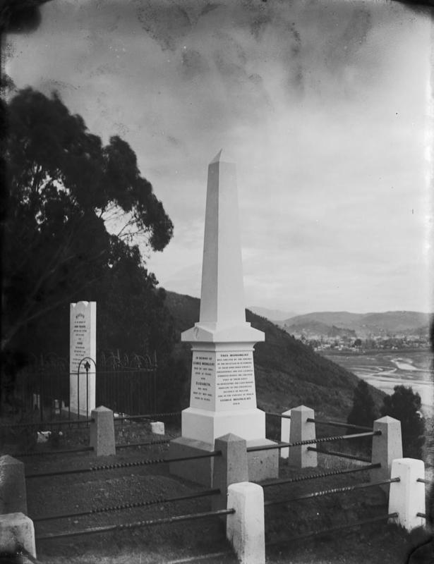 View of the grave and memorial for George and Elizabeth Moonlight at Wakapuaka Cemetery. Nelson city is in the distance.